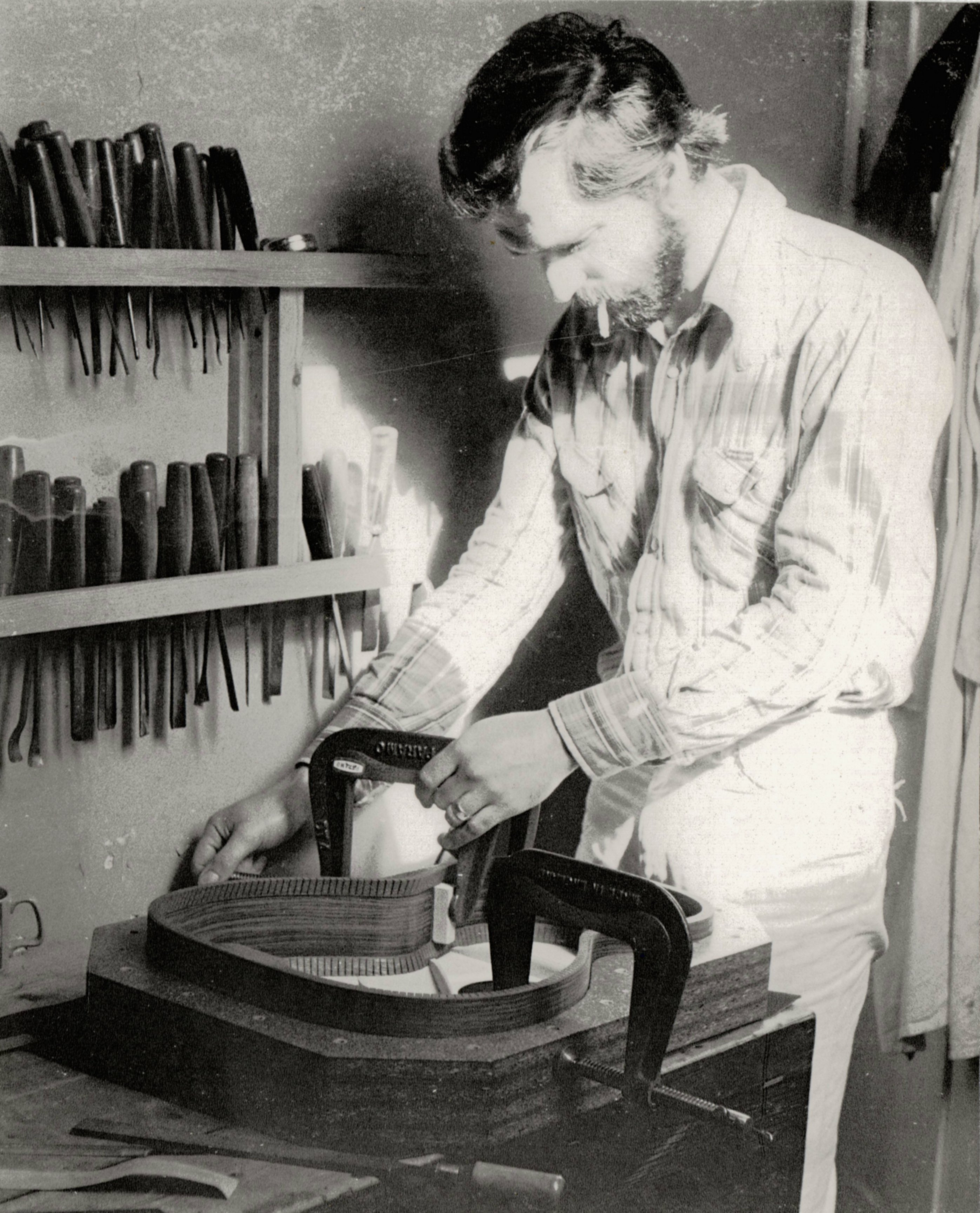 Steve Phillips, UK musician and guitar maker in his workshop in Leeds, 1979 (Tony Rees photograph)